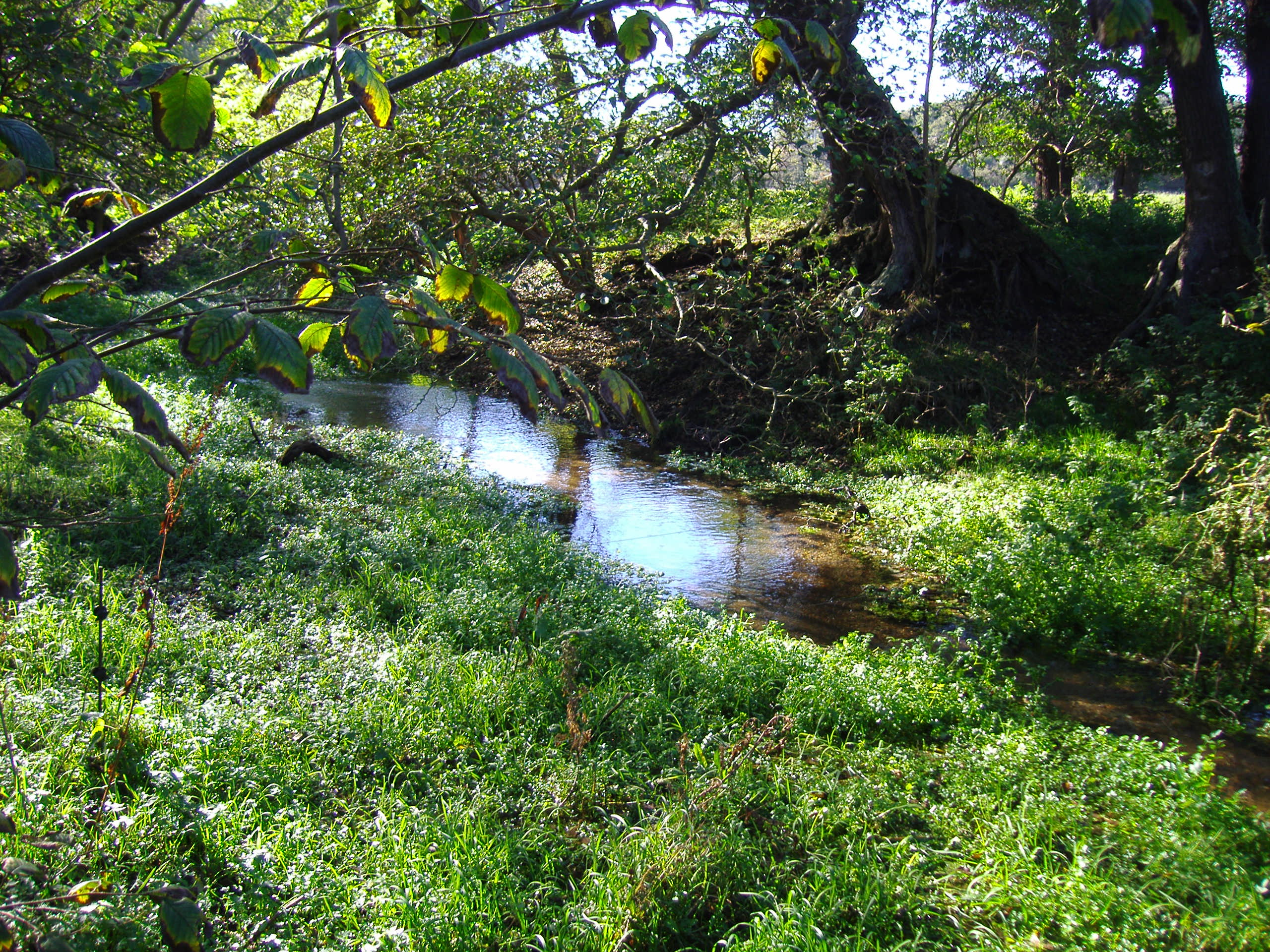 The River Hun on the 17th October 2007